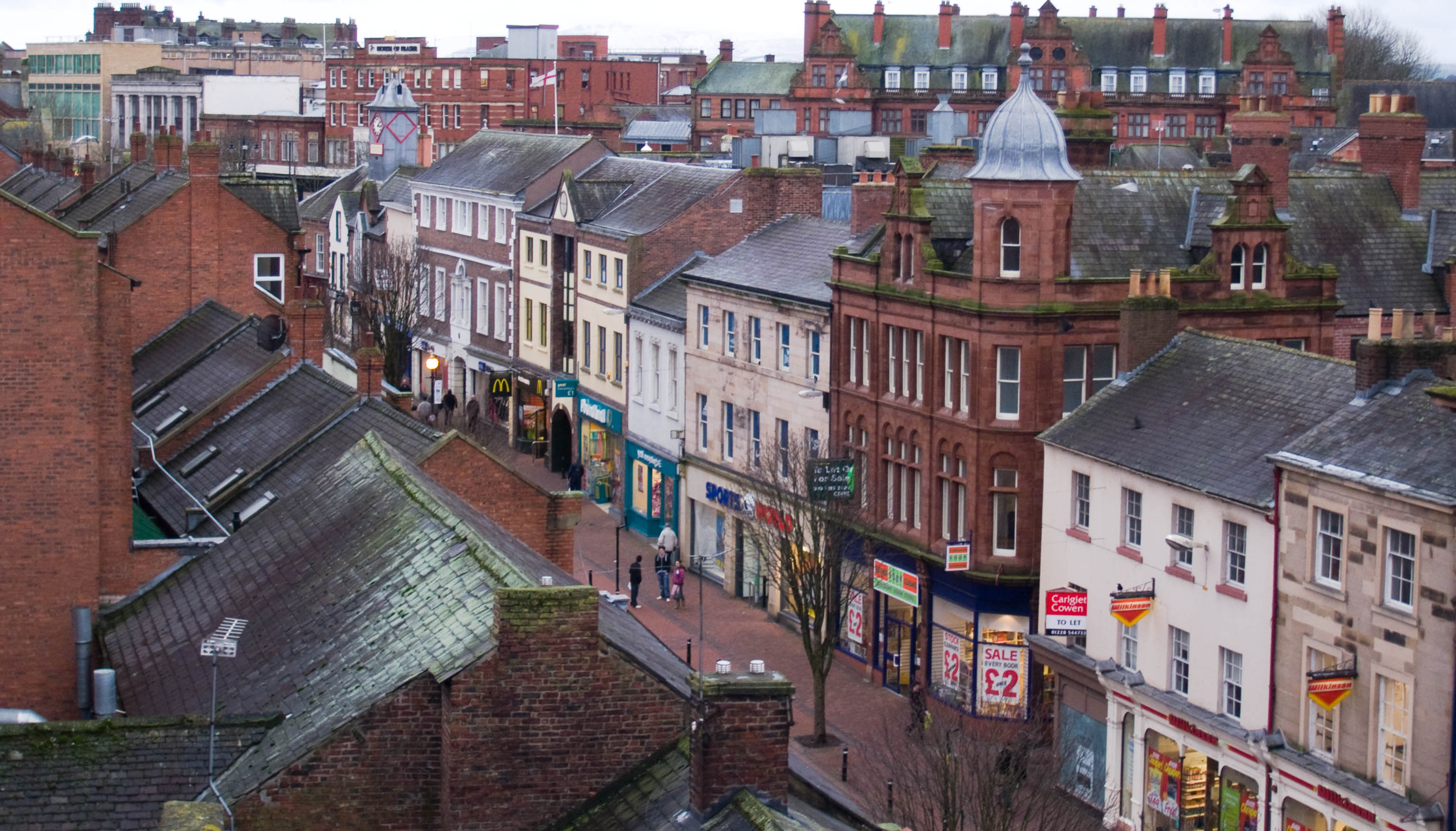 Scotch Street, Carlisle-Lanes Car Park